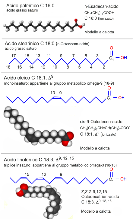 Example Fatty acids 3D